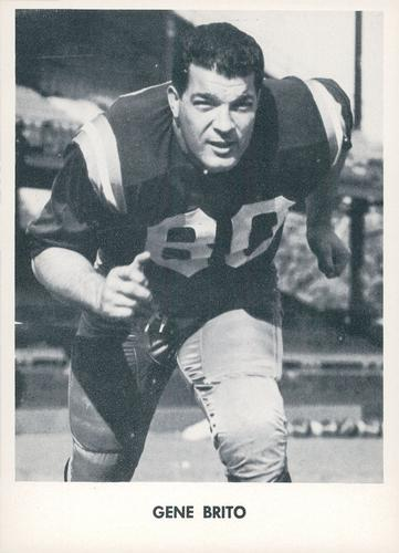 An publicity image of Washington Redskins player Gene Brito.